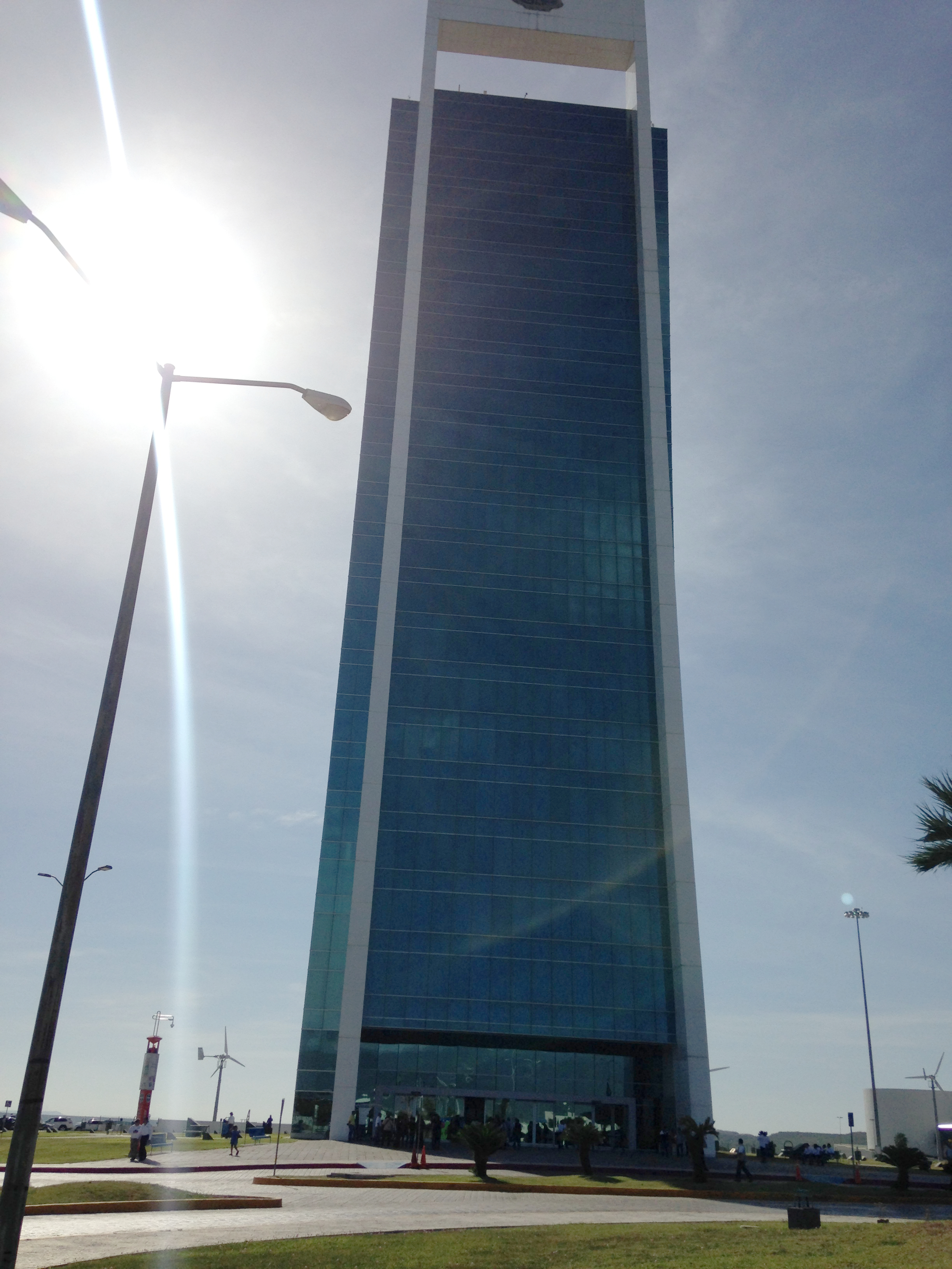 Torre Bicentenario, sede de oficinas del gobierno del estado de Tamaulipas en Ciudad Victoria, México